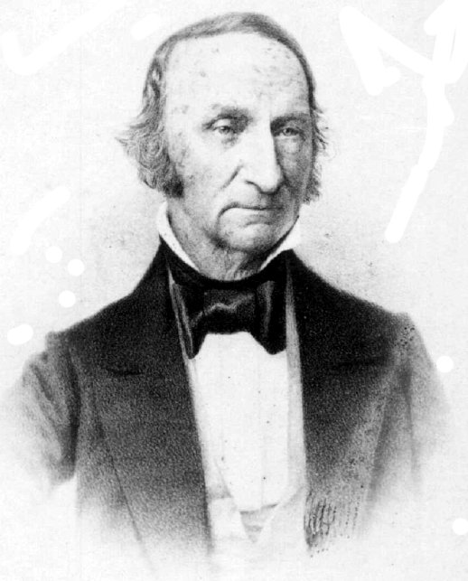 Christopher Hansteen (1784 - 1873) - Graphic: 6 x 4.5 cm / Sheet: 8.2 x 5.3 cm